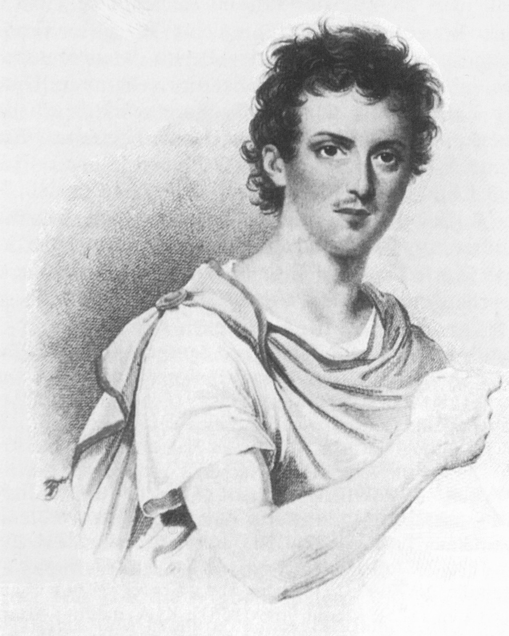 Rossini - Zelmira - Giovanni David as Ilo - colored engraving by Leopold Beyer - Kärntnertortheater - Vienna 1822